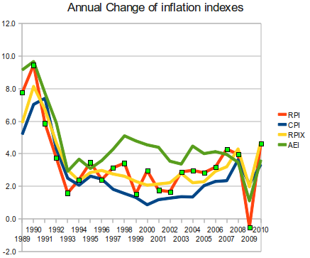 Shows the annual rate of change of each of the major UK inflation measures: RPI, RPIX and CPI. Also included is the change in the Average Earnings Index. The numbers correspond to the average rate of inflation in the year in question.